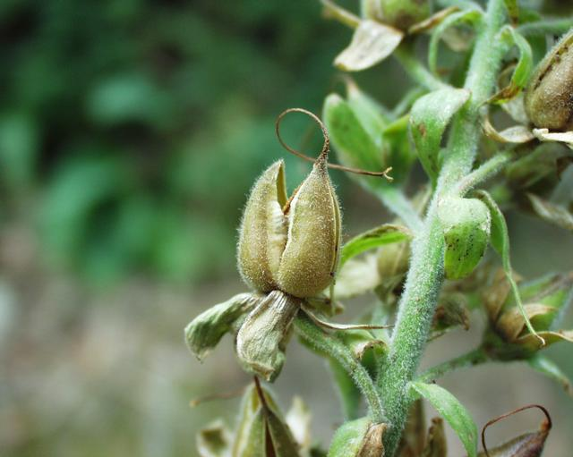 (en)Digitalis purpurea, a photography originating of the internet site The accord of the autor, H. Brisse, is here. (fr)Digitalis purpurea, une photographie issue du site internet L'accord de l'auteur, H. Brisse, se situe ici.